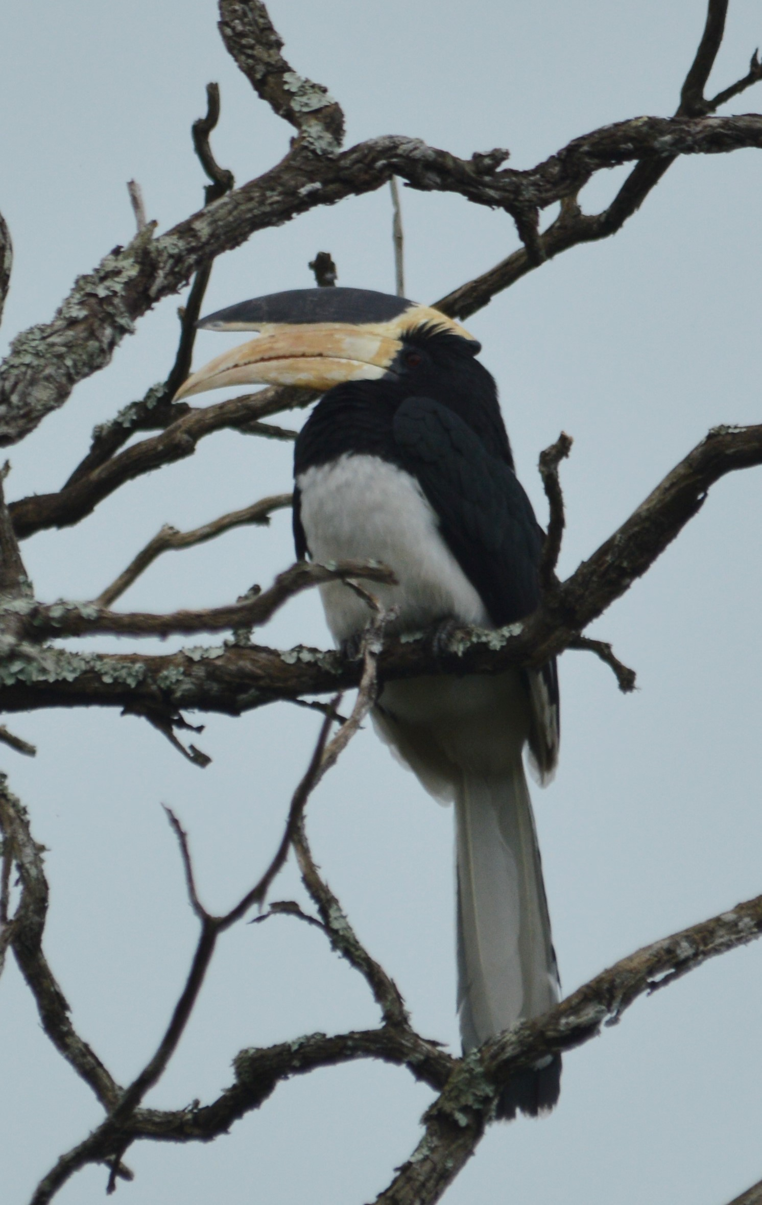 A malabar pied hornbill sitting on a dried tree.